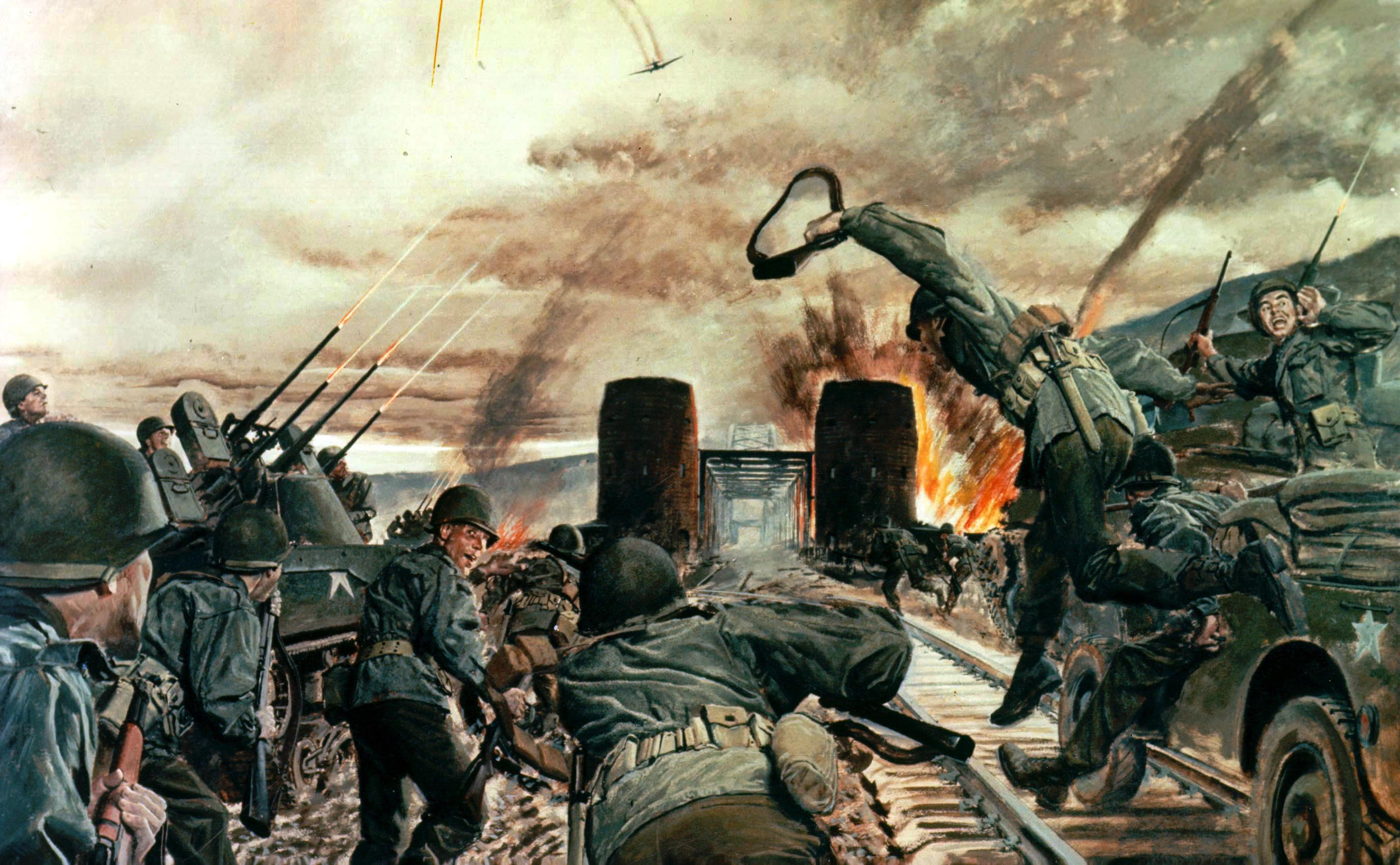 Poster printed by the US Army commemorating the capturing of the Ludendorff Bridge at Remagen. The official description is: "The Remagen Bridgehead - 7 March 1945" Department of the Army Poster 21-32 Here, on the Ludendorf Bridge crossing the Rhine at Remagen, Combat Command B, 9th Armored Division -- headed by the 27th Armored Infantry Battalion -- with "superb skill, daring and esprit de corps" successfully effected the first bridgehead across Germany's formidable river barrier and so contributed decisively to the defeat of the enemy. The 27th Battalion reached Remagen, found the bridge intact but mined for demolition. Although its destruction was imminent, without hesitation and in face of heavy fire the infantrymen rushed across the structure, and with energy and skill seized the surrounding high ground. The entire episode illustrates that high degree of initiative, leadership and gallantry toward which all armies strive but too rarely attain, and won for the Combat Command the Distinguished Unit Citation.